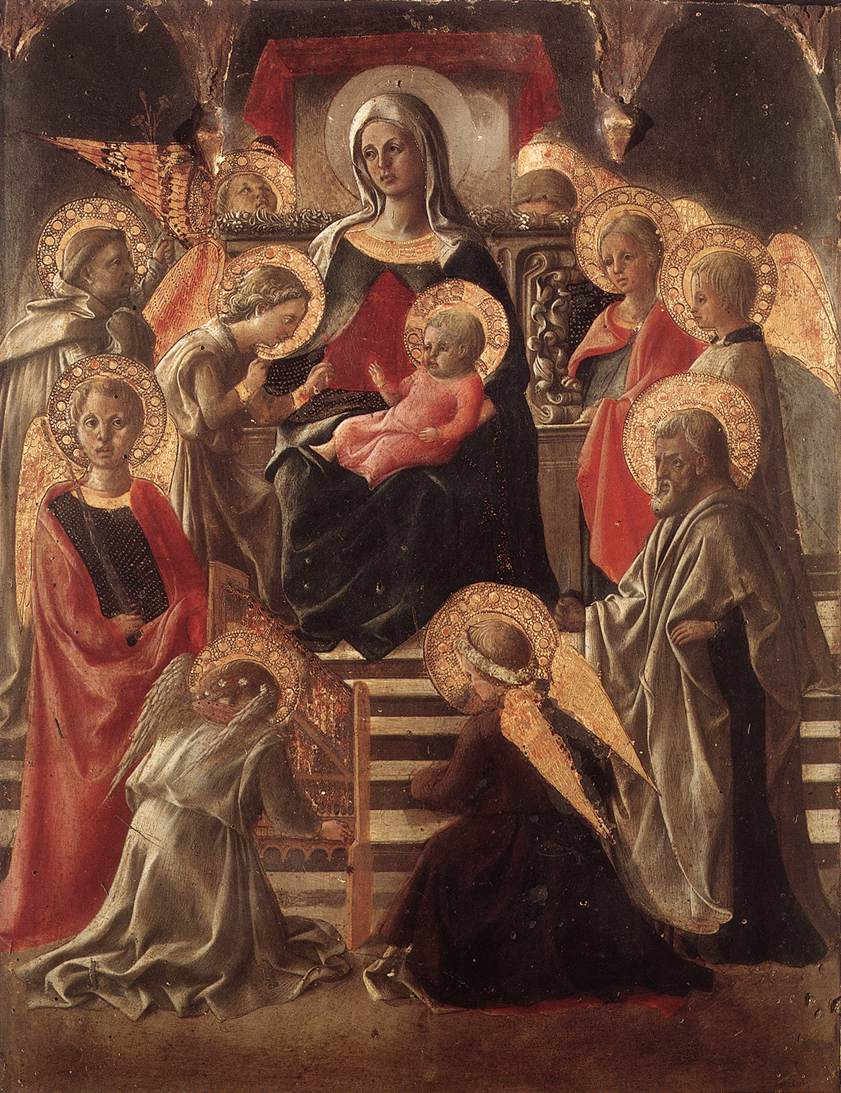 Filippo Lippi, Madonna and Child Enthroned with Saints c. 1430 Panel, 43,7 x 34,3 cm Museo Diocesano, Empoli.